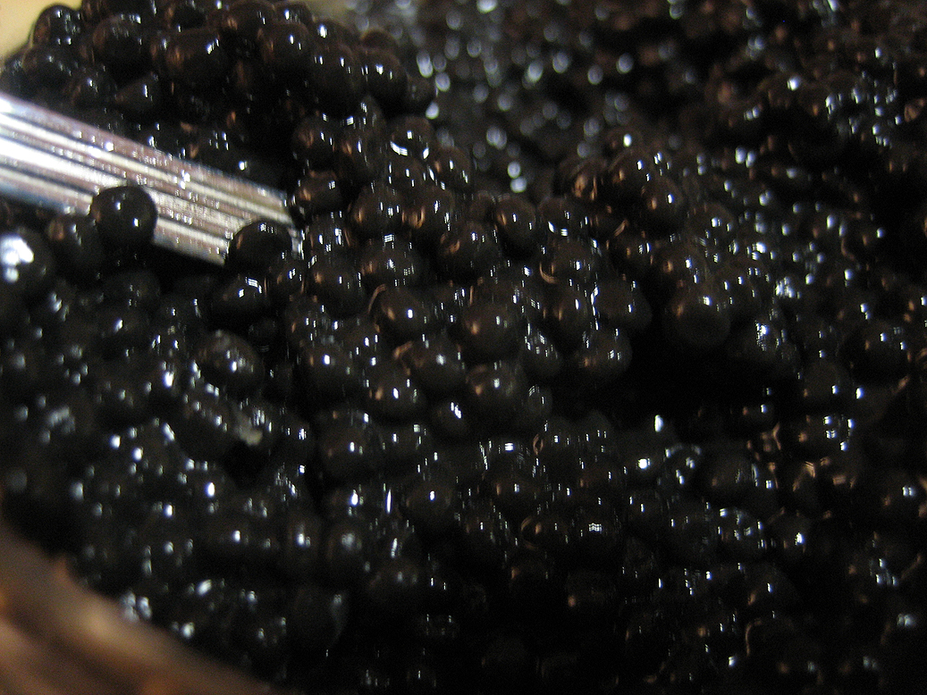 Acabar l'any amb caviar, bé, amb succedani; Finishing the year with caviar, well, caviar substitute.